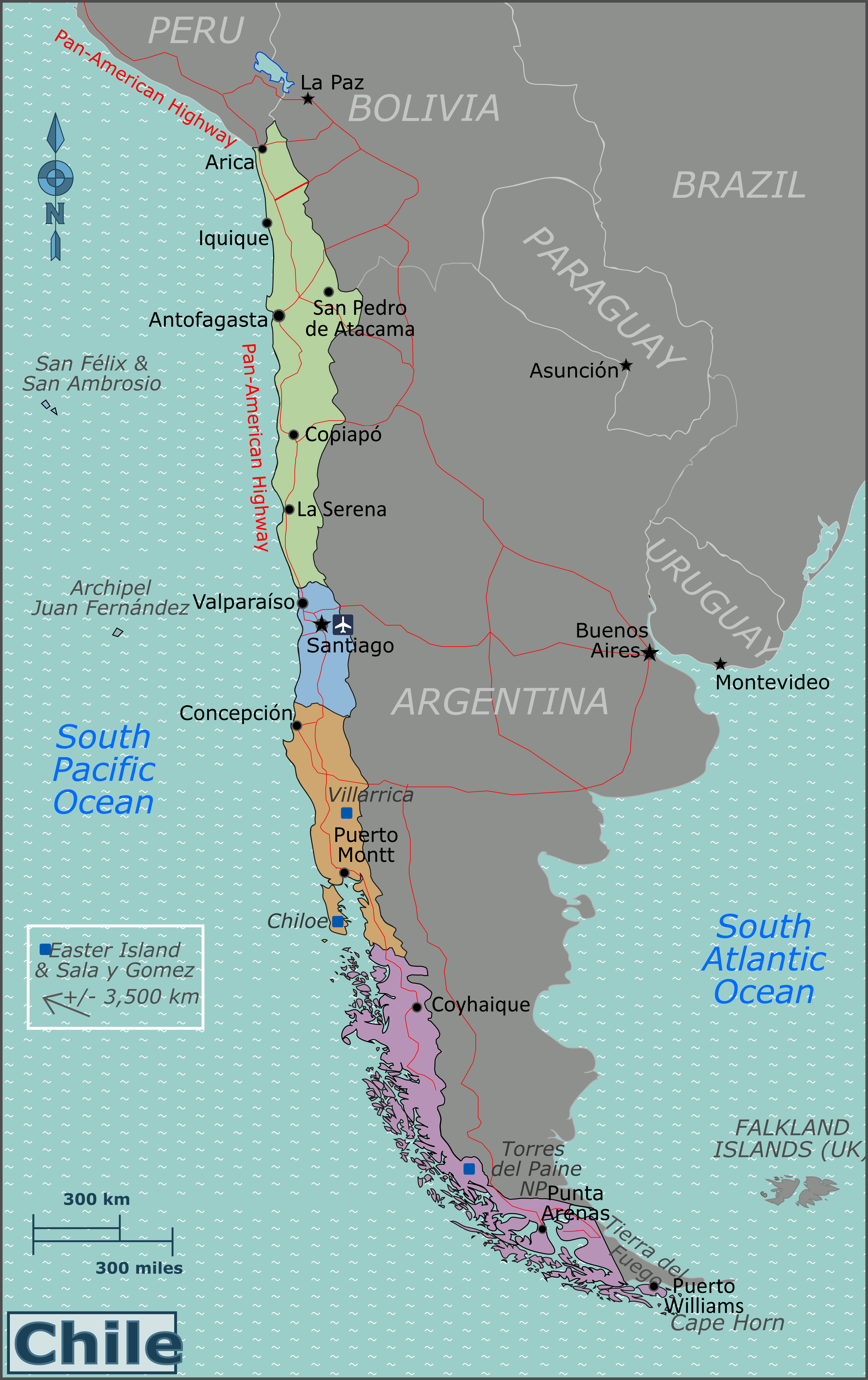 Regions of Chile for use on Wikivoyage, English version